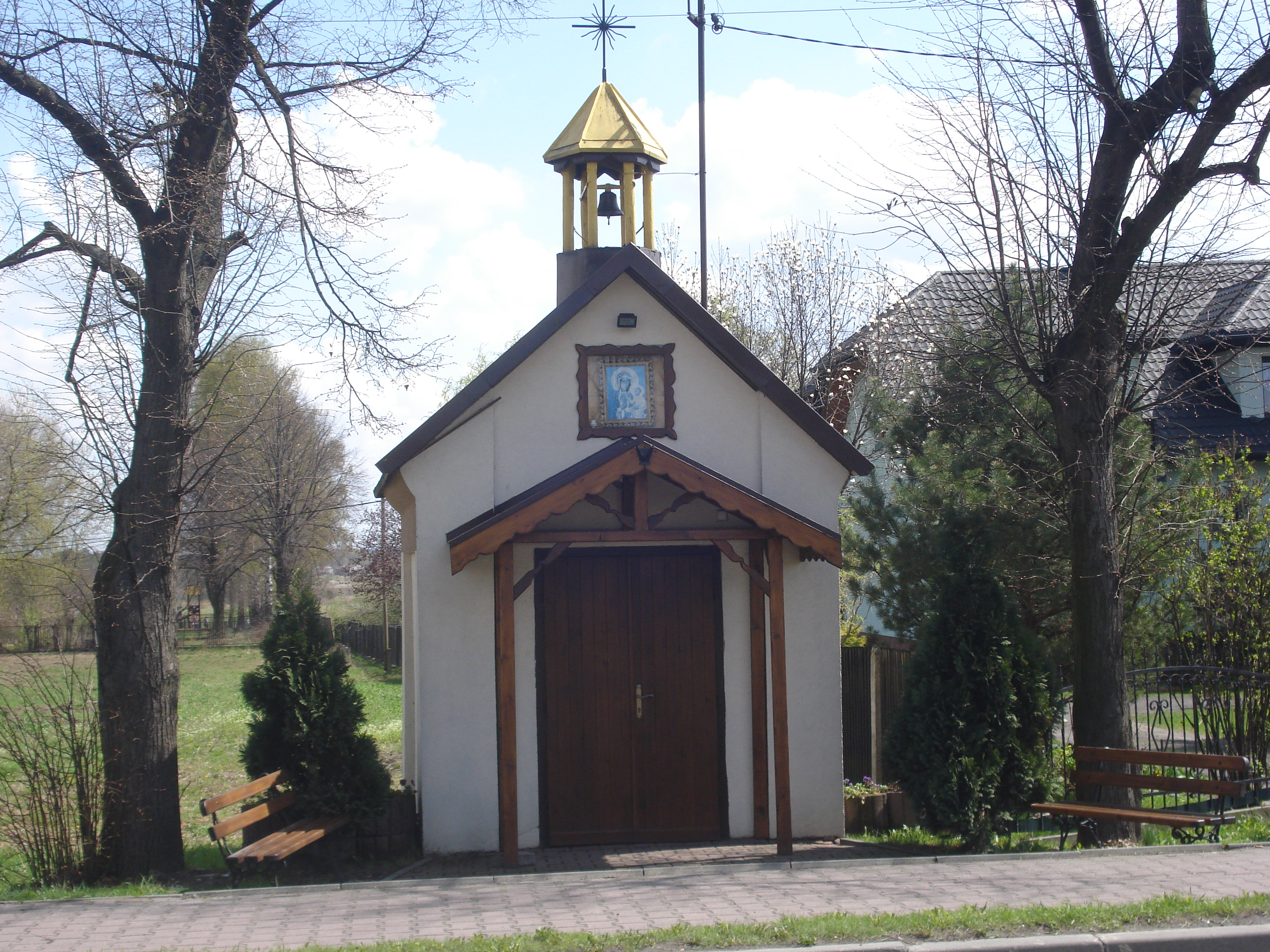 The historic chapel in Chełm Śląski-Kopciowice on Górnośląska Street